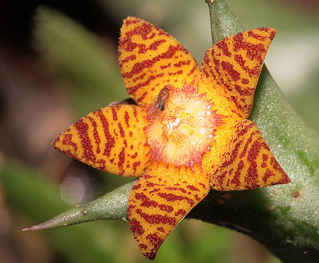 Orbea schweinfurthii